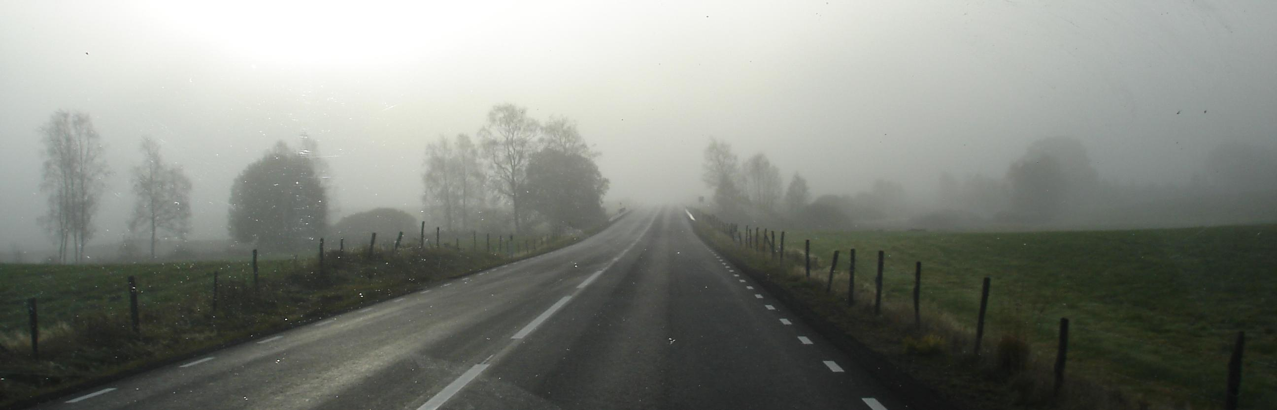 Road 153 a few kilometers west Ullared, southwest Sweden, Europe. The picture is taken in eastbound direction. The speed limit is 90 km/h.